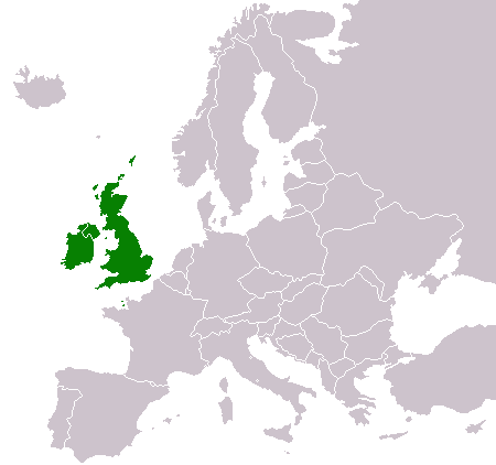 The Common Travel Area as of 2006: UK, Jersey, Guernsey, Isle of Man, Ireland.